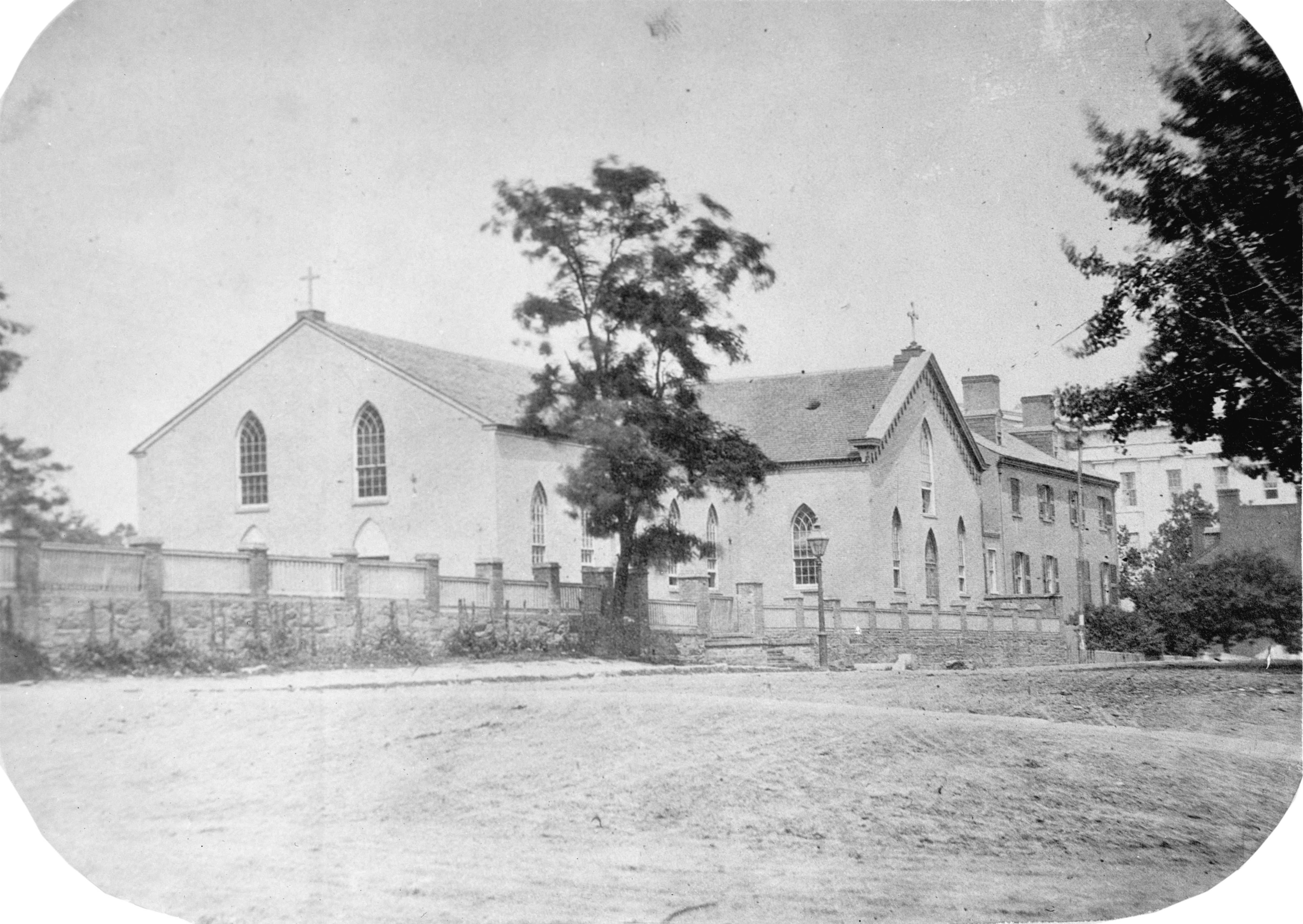 Title: Old St. Patrick's Church, 10th & F Sts., N.W., Wash., D.C. as it appeared between 1809 and 1870. Abstract/medium: 1 negative : nitrate ; 5 x 7 in. or smaller